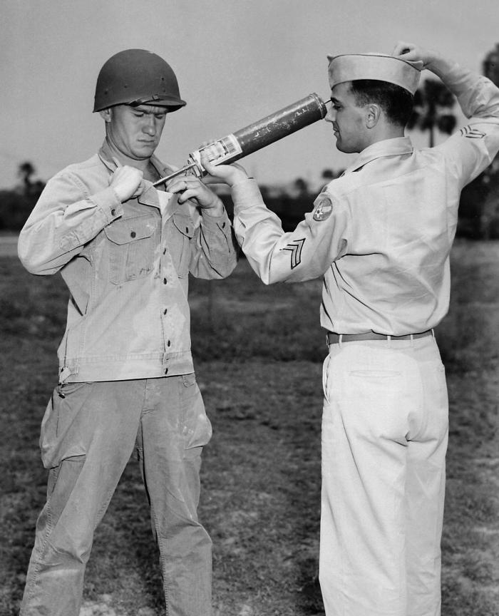 A U.S. soldier is demonstrating DDT-hand spraying equipment while applying the insecticide. The use of DDT increased enormously on a worldwide basis after World War II, because of its effectiveness against the mosquito that spreads malaria and lice that carry typhus. The World Health Organization claims that the use of DDT saved 25 million lives. During World War I typhus caused three million deaths in Russia and more in Poland and Romania. De-lousing stations were established for troops on the Western front but the disease ravaged the armies of the Eastern front, with over 150,000 dying in Serbia alone. Fatalities were generally between 10 to 40 percent of those infected, and the disease was a major cause of death for those nursing the sick. Between 1918 and 1922 typhus caused at least 3 million deaths out of 20–30 million cases. In Russia after World War I, during the civil war between the White and Red armies, typhus killed three million, largely civilians. Even larger epidemics in the post-war chaos of Europe were only averted by the widespread use of the newly discovered DDT to kill the lice on millions of refugees and displaced persons.